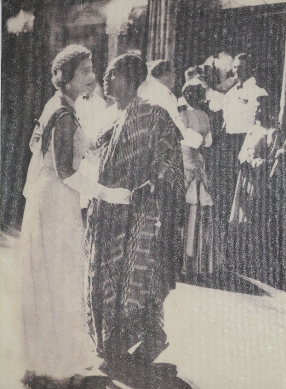 President Nkrumah dancing with the Duchess of Kent